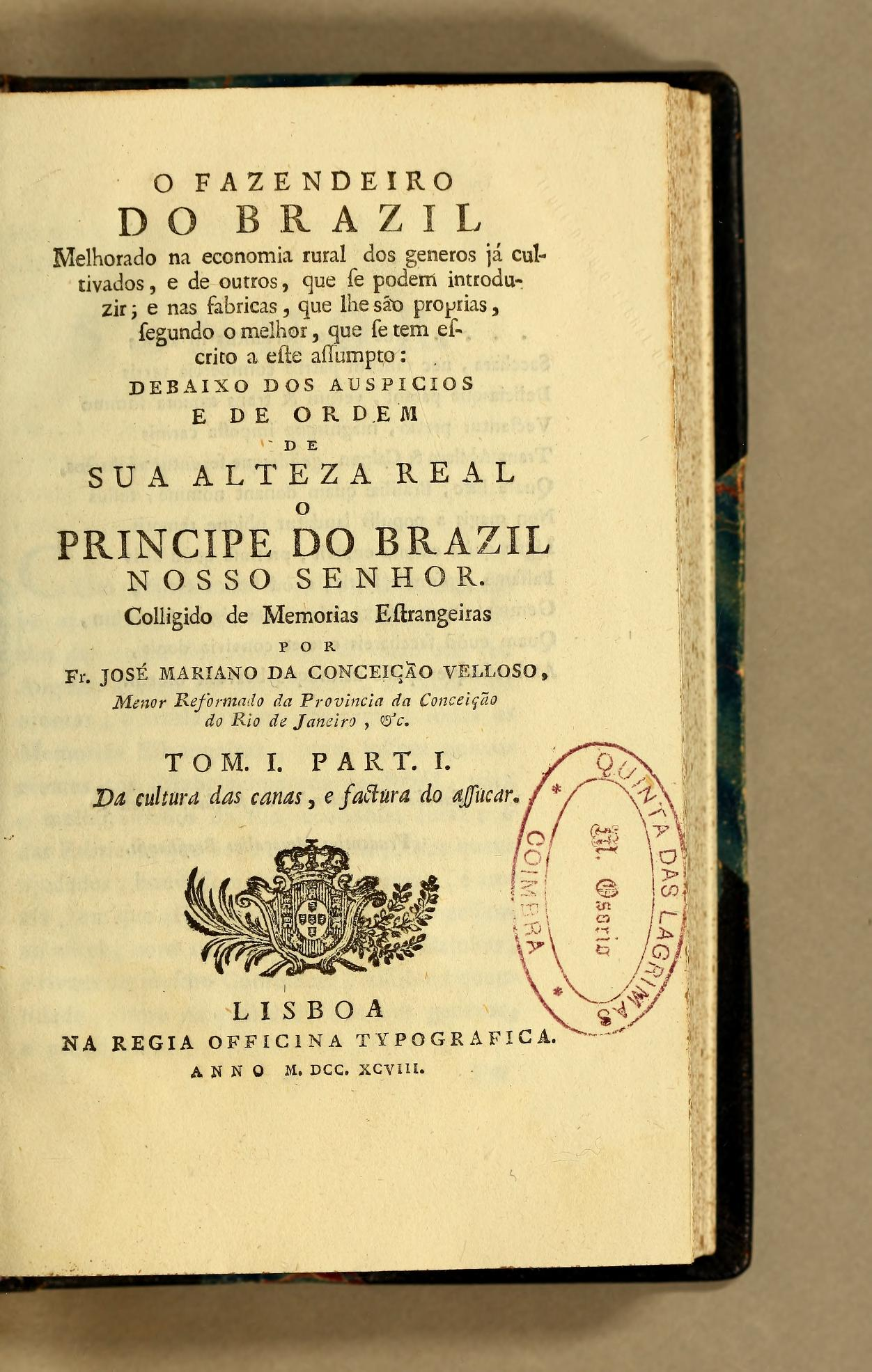 Title page of volume 1 of O fazendeiro do Brazil by José Mariano da Conceição Velloso